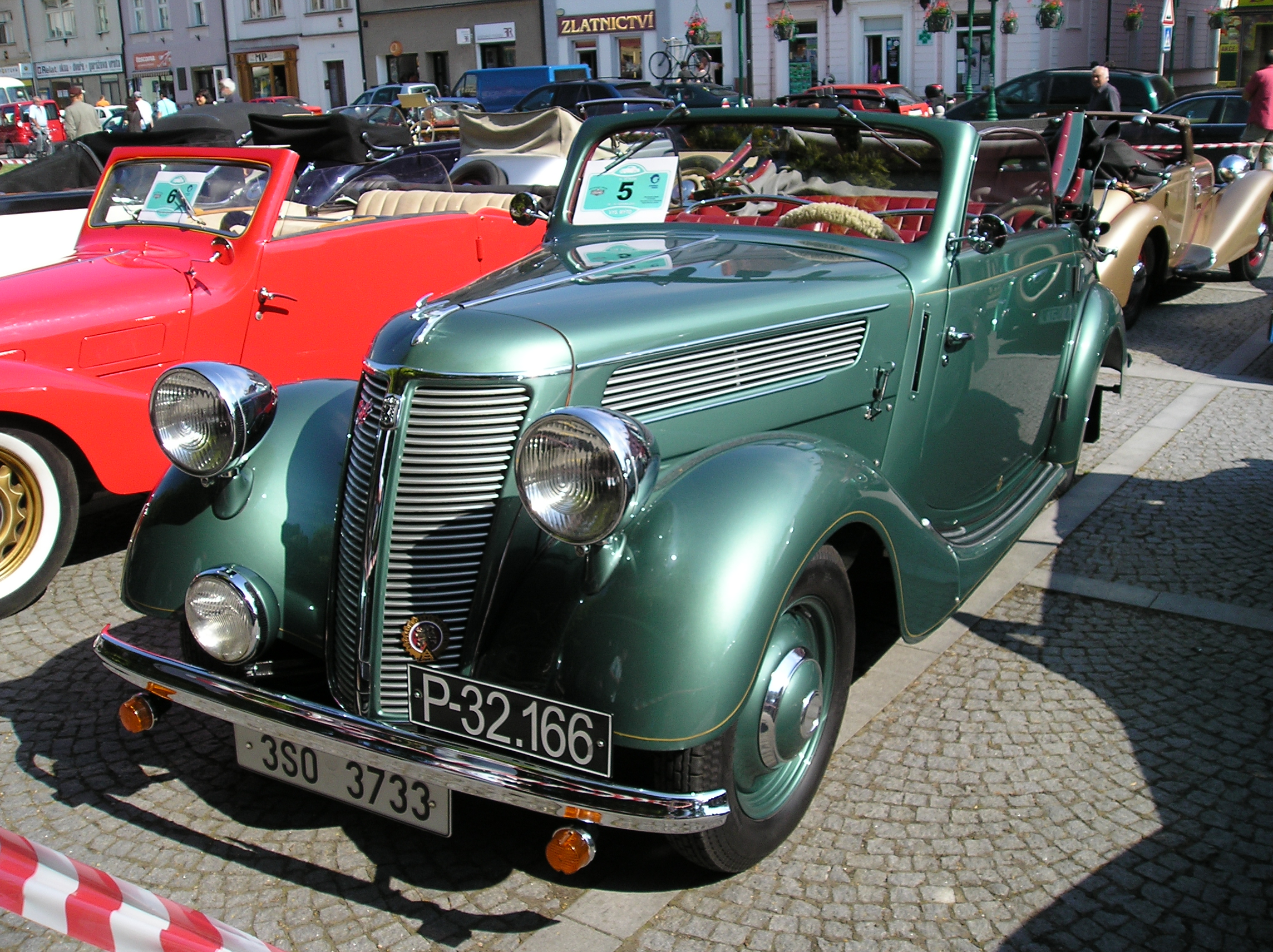 Praga Piccolo with convertible coachwork by Sodomka